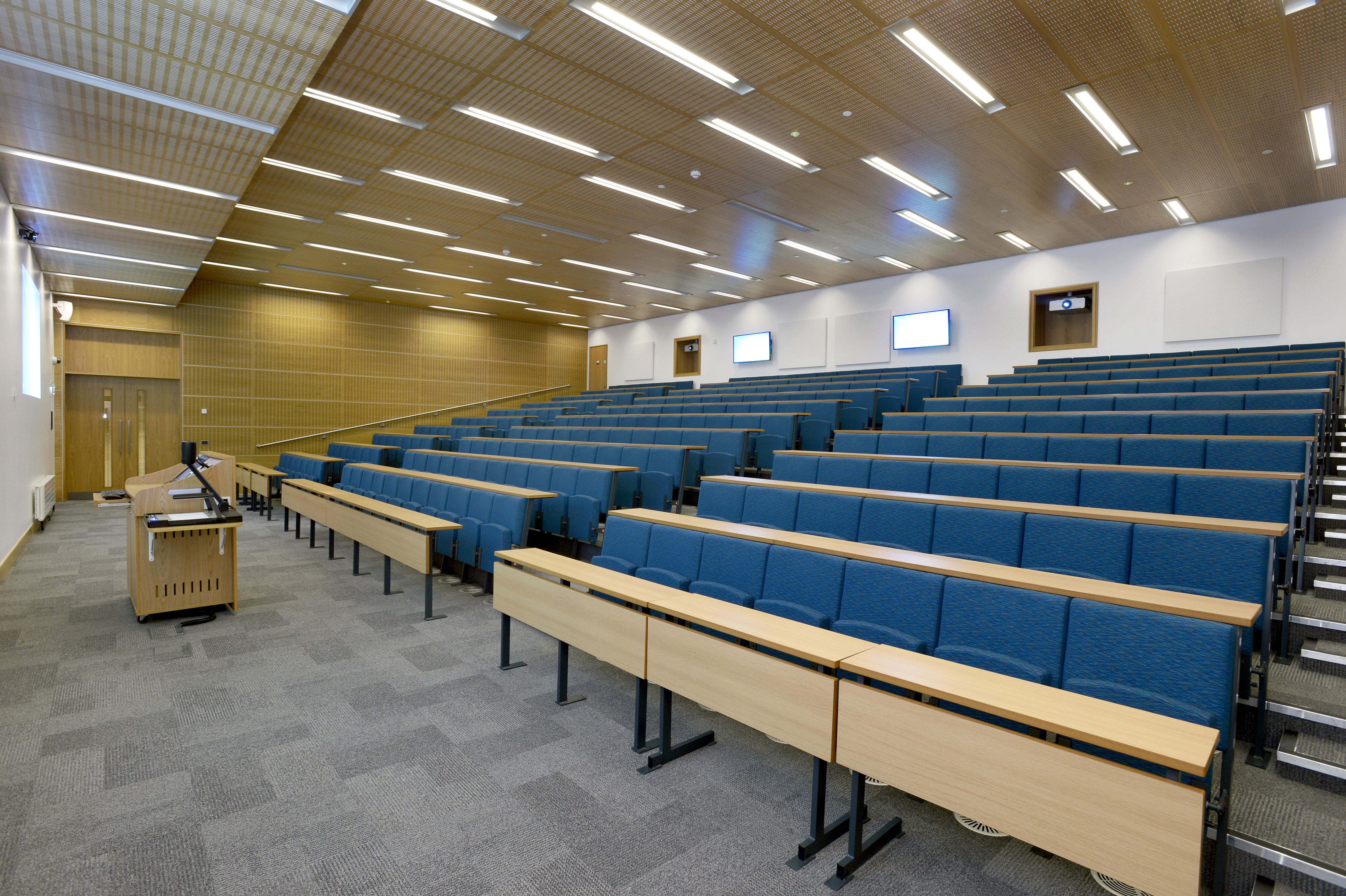 McIntyre House - The Brendan Carroll Lecture Theatre.